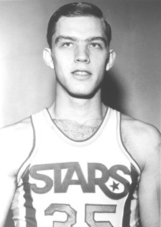 Professional basketball player Dennis Gray as a member of the American Basketball Association's (ABA) Los Angeles Stars during the 1968–69 season.